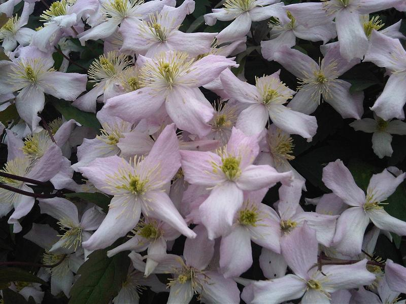 Anemone Clematis (Clematis montana) flowers in London, England.